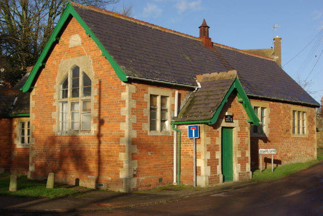 Brailes Institute A sign above the door announces this building as the home of the Brailes Mechanical and Craft Society.